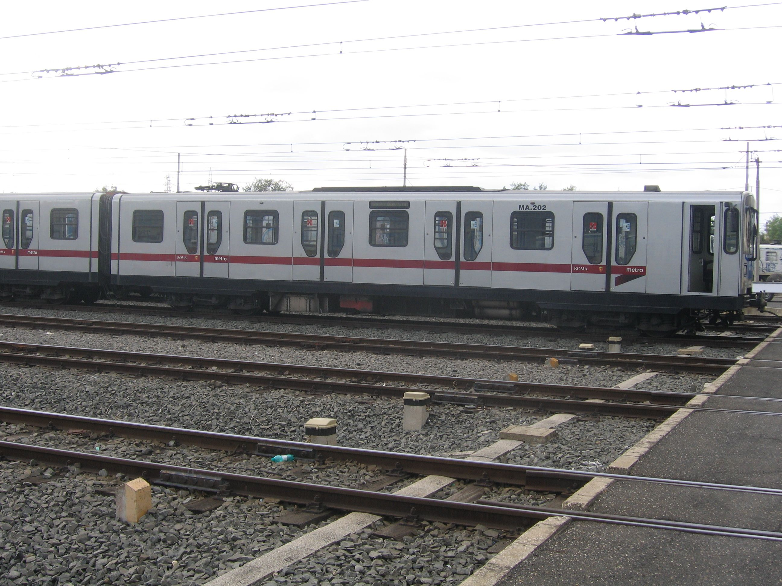 Metro-Train Rome